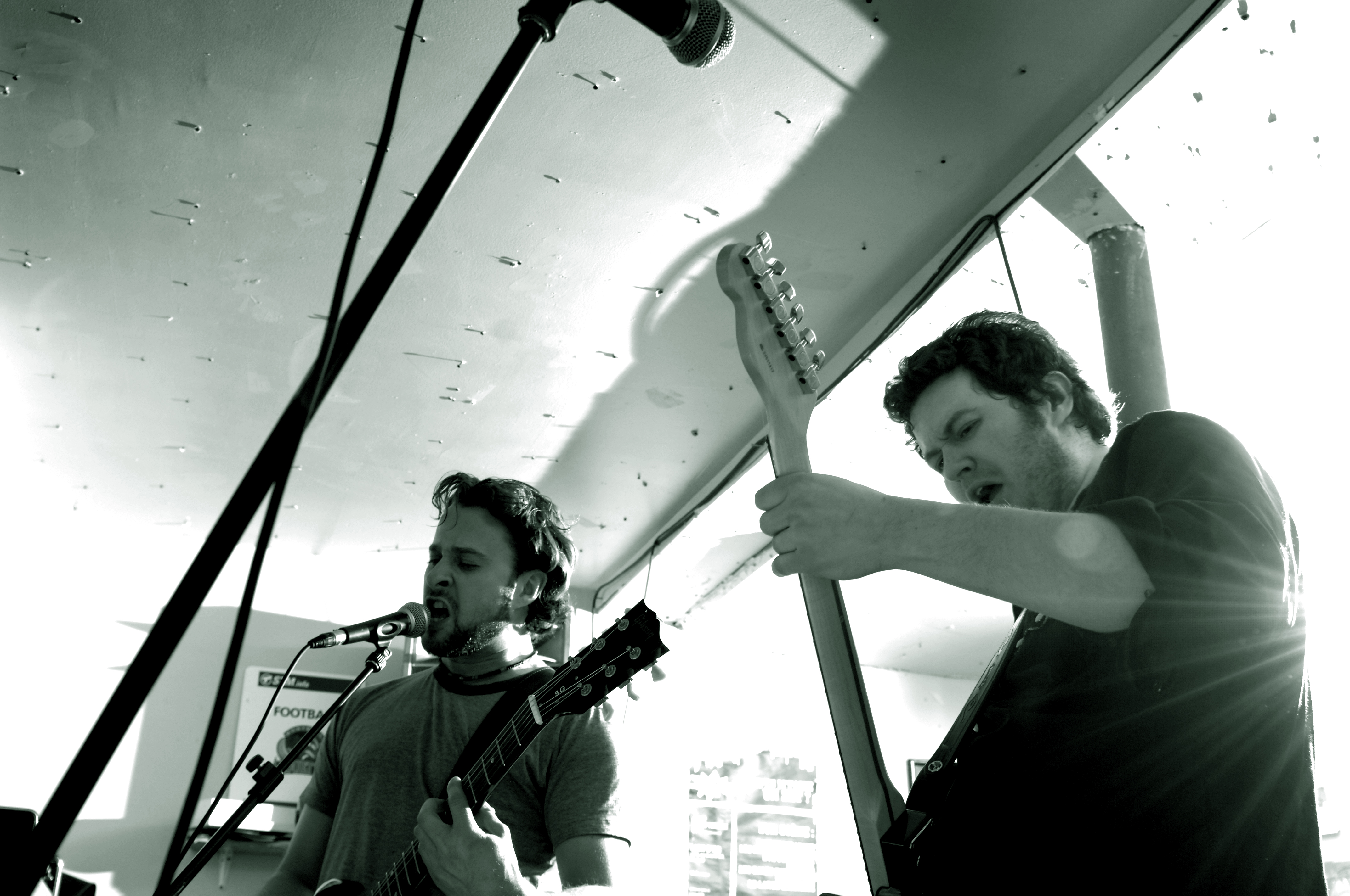 Credit: Lazy at work